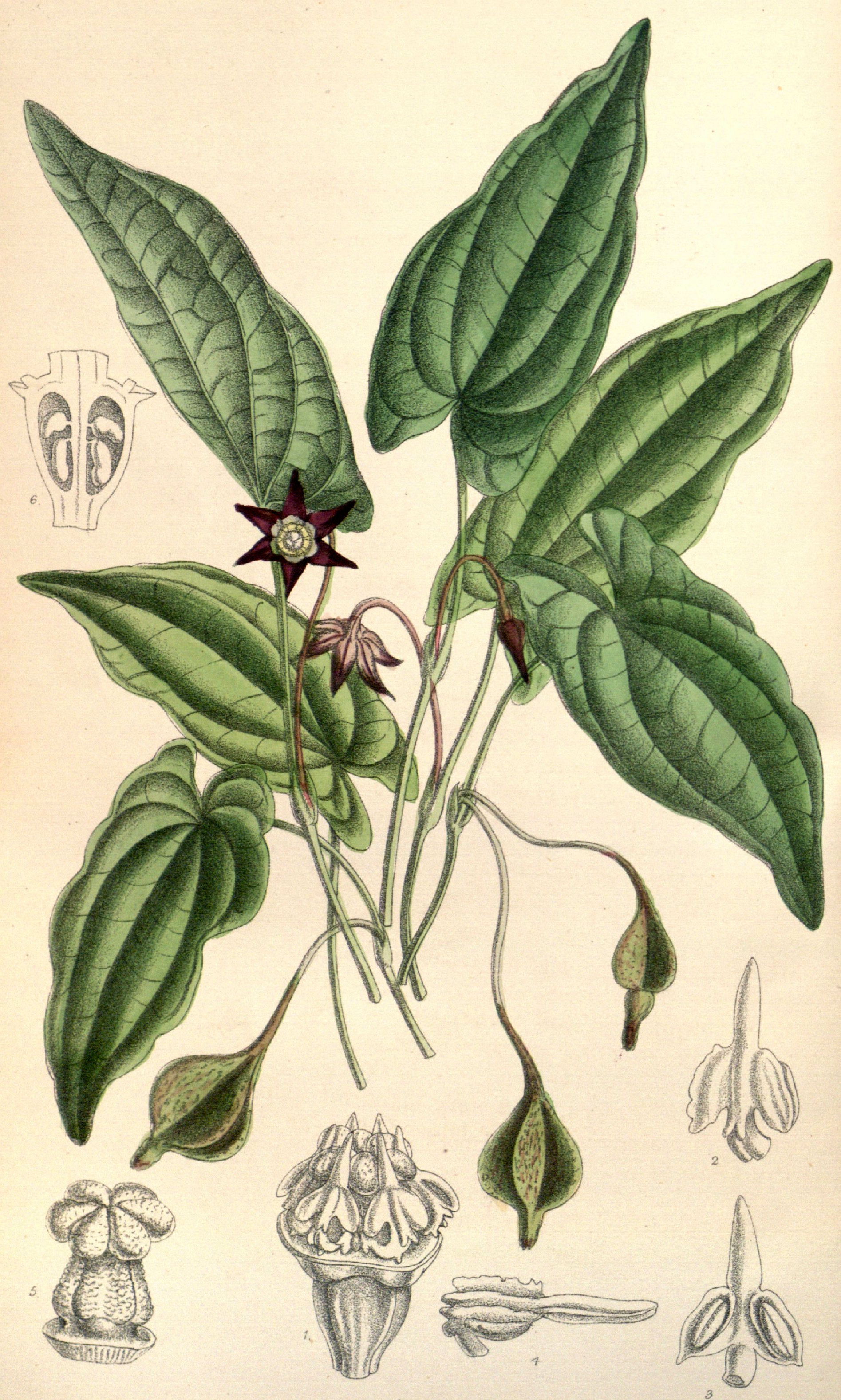 Trichopus zeylanicus